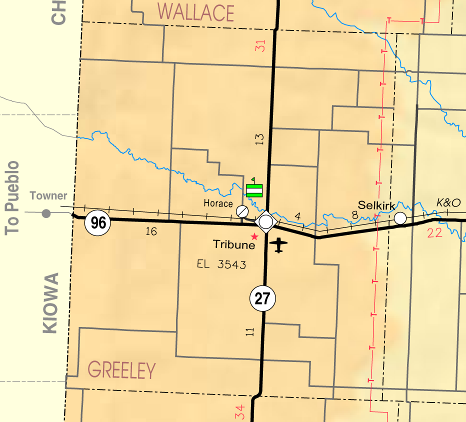 This map of Greeley County, Kansas, USA, is copied at a resolution of 300 pixels/inch from the original PDF file.